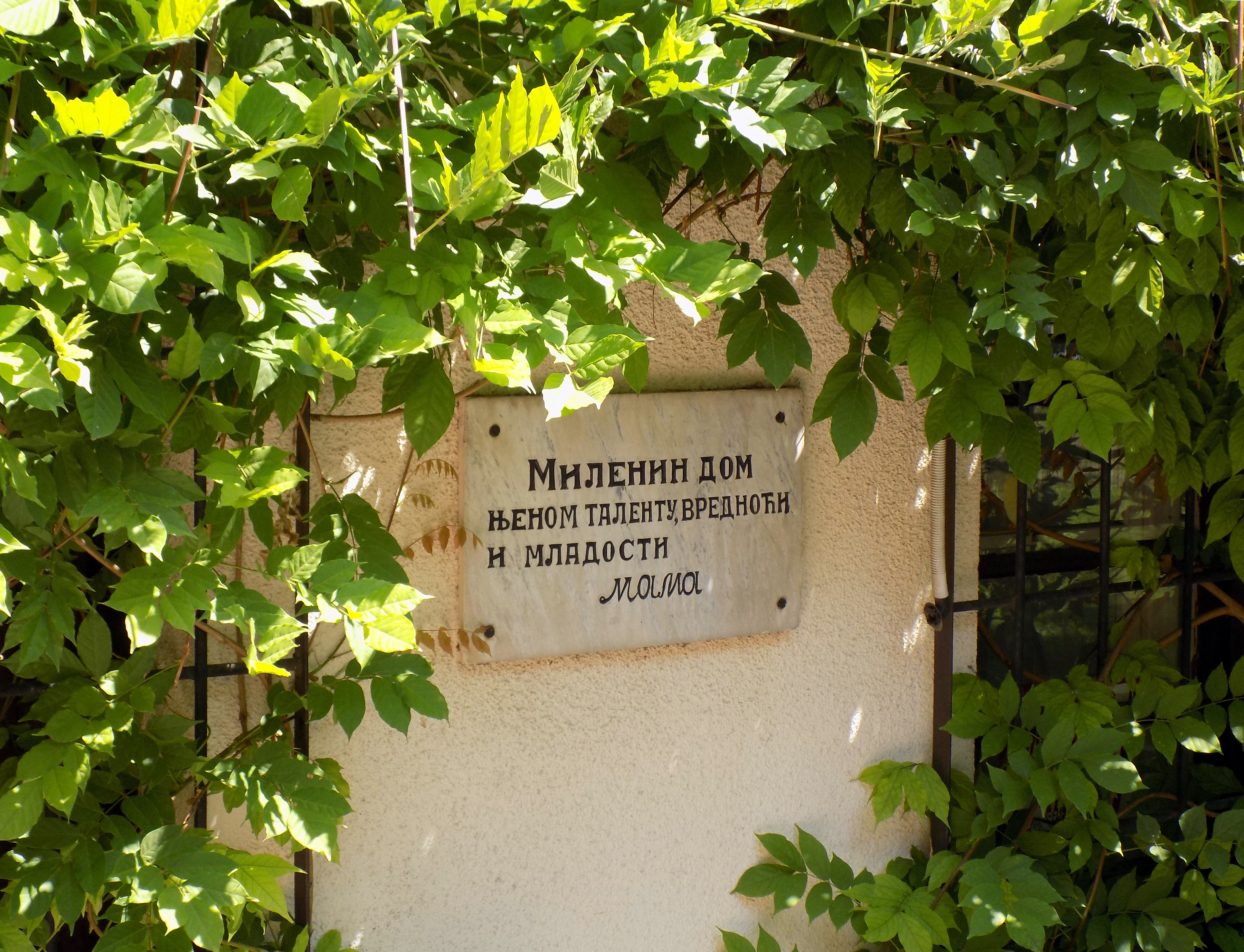 Milena Pavlović-Barili Gallery (Milena's home) - Memorial plaque at the entrance to the Galleryː "Milena's home - to her talent, values and youth - mom"